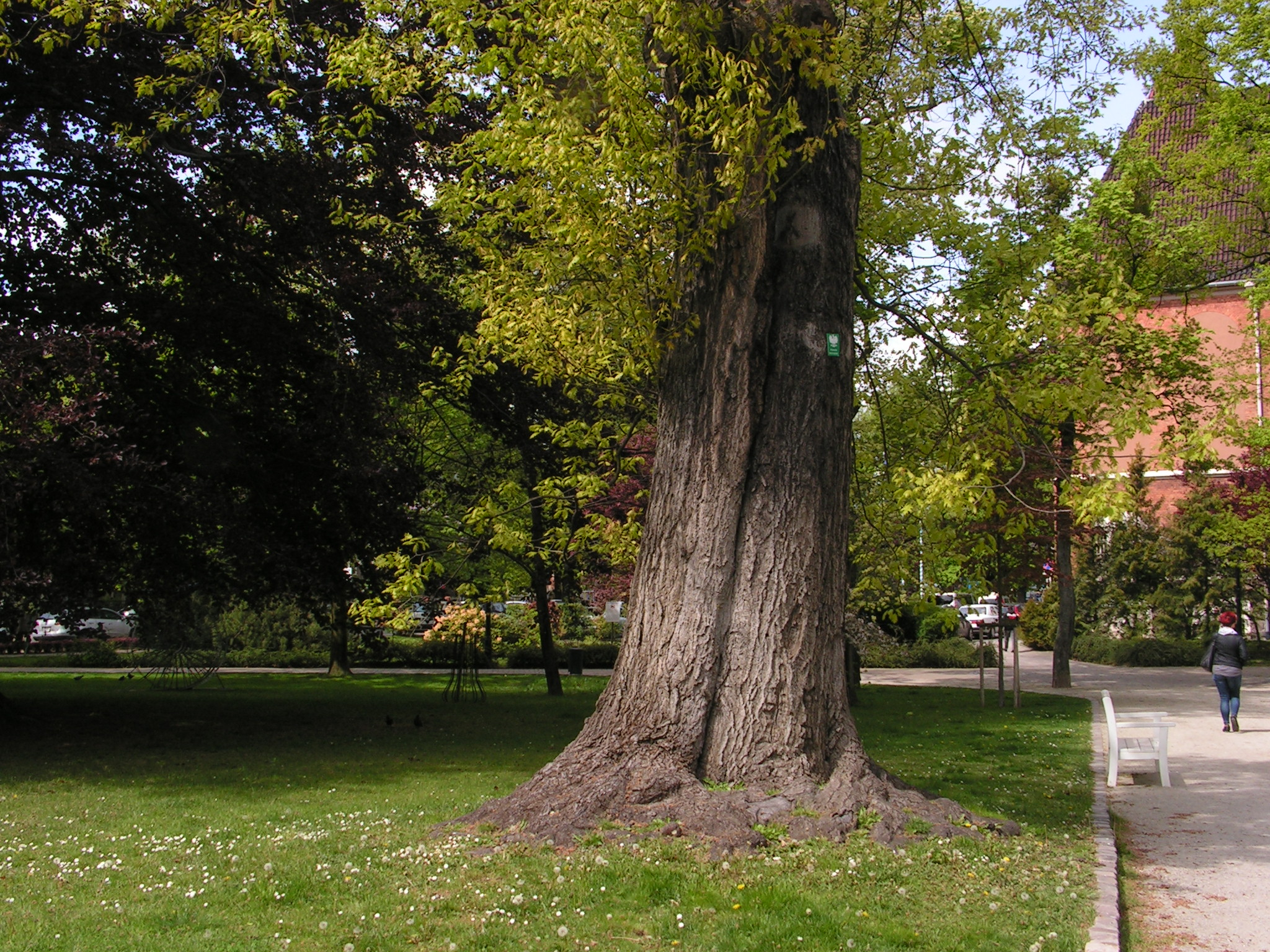 Beech, Monument of Nature in Herbst Park in Sopot.